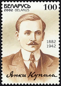 Stamp of Belarus